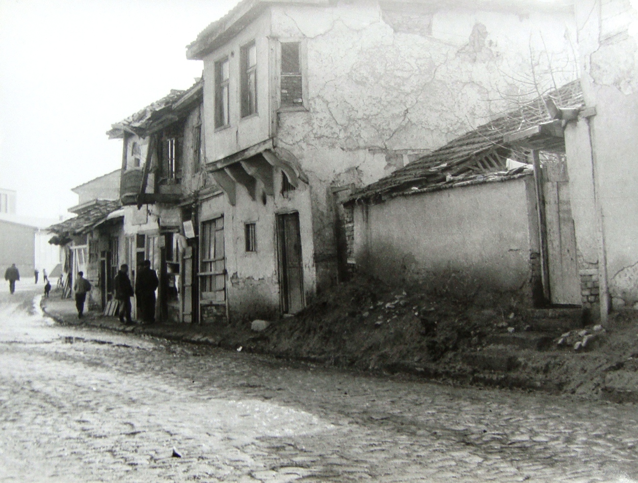 Dukjandzhik, photo taken before 1962 This media file is produced by Wikipedian in Residence in Category:Wikipedian in Residence at DARM in 2016.